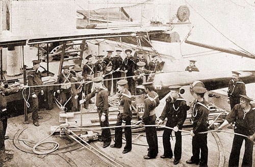 Gunners operating a pivot gun aboard a United States Navy vessel, late 19th century (date unknown) From Life and Heroic Deeds of Admiral Dewey including Battles in the Philippines (Globe Bible Publishing Co., Philadelphia, 1899)